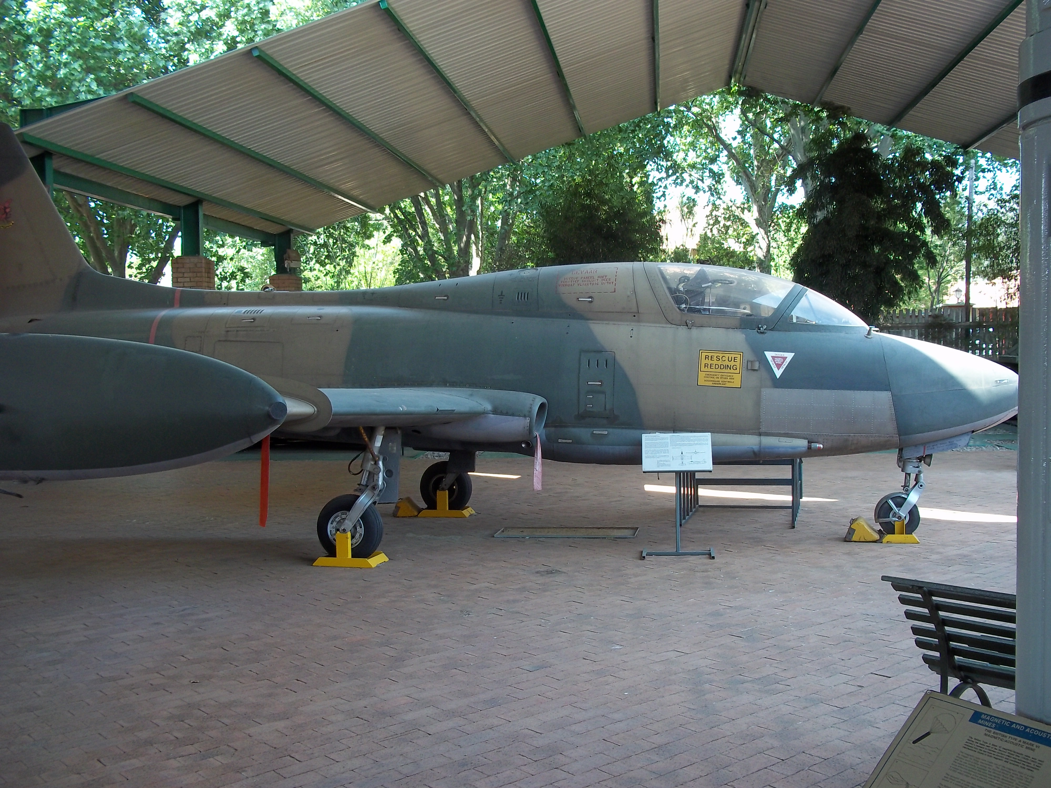 Retired Impala MK II of the South African Air Force